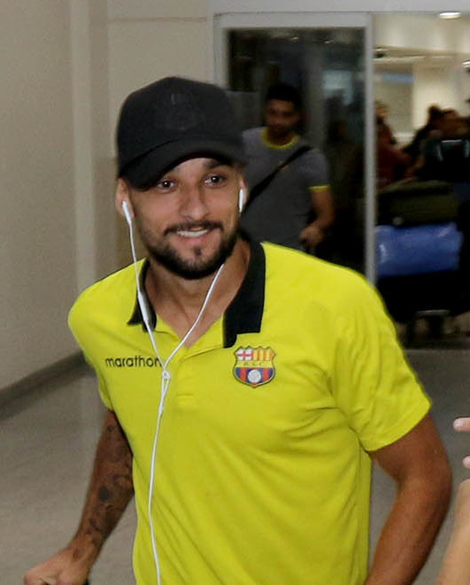 Guayaquil, miércoles 03 de mayo del 2017 (Andes).-Luego de la victoria de 2x0 a Botafogo en Brasil, el equipo ecuatoriano Barcelona, retorno al pais en medio del recibimiento de sus hinchas.Foto:Andes/César Muñoz